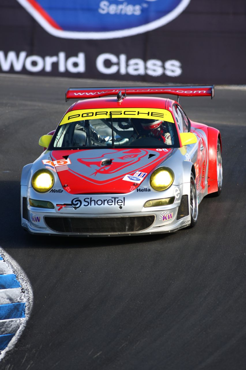 Jörg Bergmeister driving Flying Lizard Motorsport's Porsche 997 GT3-RSR at the 2007 Monterey Sports Car Championships.